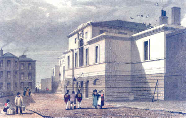 Salford New Bailey Prison and Lying-in hospital